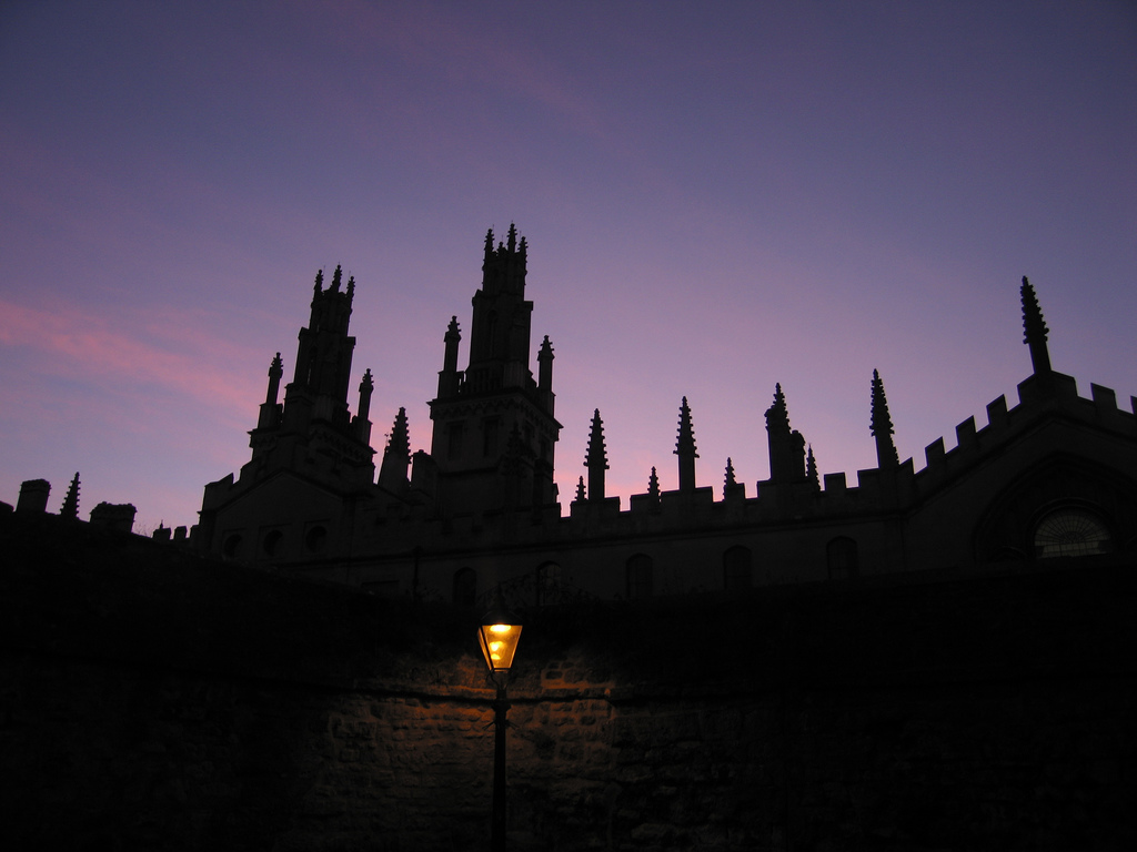 A picture of All Souls College, Oxford, taken at twilight from the alleyway behind New College.